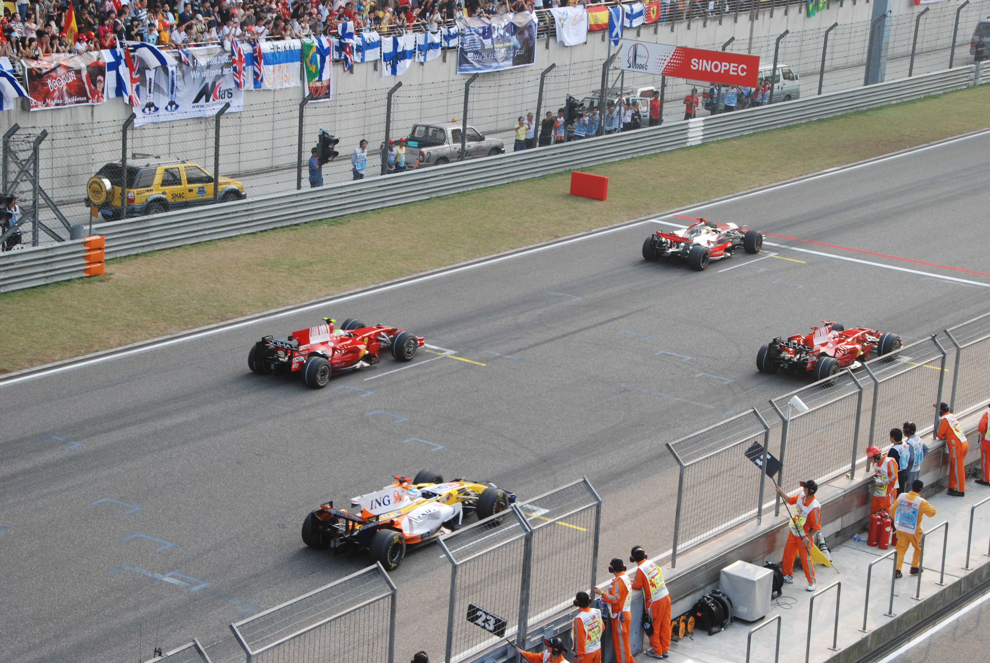 Starting Grid of 2008 Chinese Grand Prix